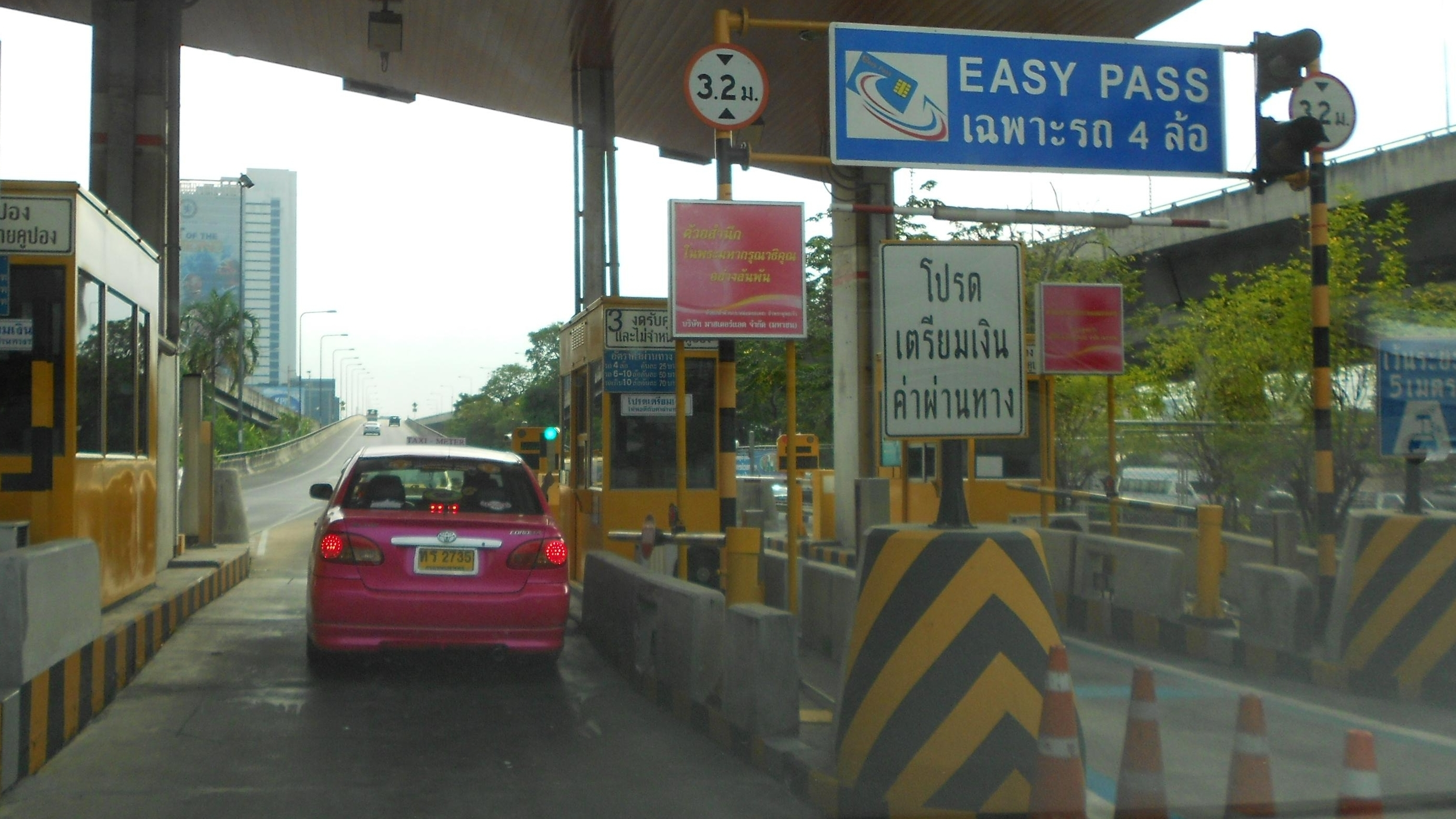 Mautstation in Thailand